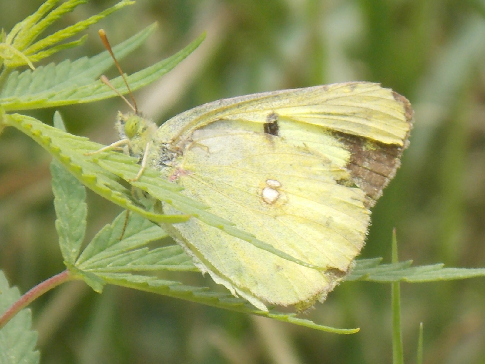 Colias erate (Pale Clouded Yellow): 14th May 2014 from Taxila, Rawalpindi, Punjab, Pakistan